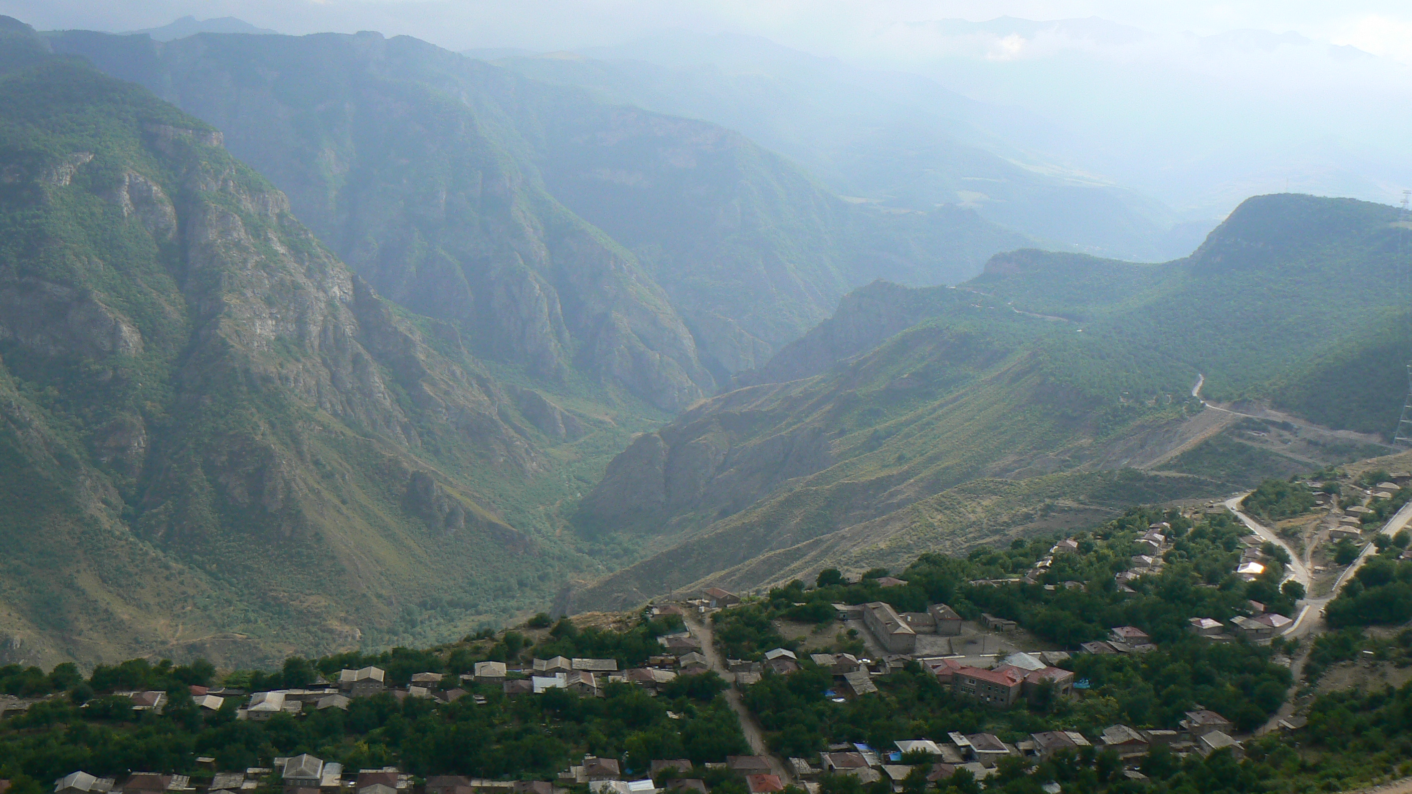 View from the tram of the Wings of Tatev - the World longest aerial tramway